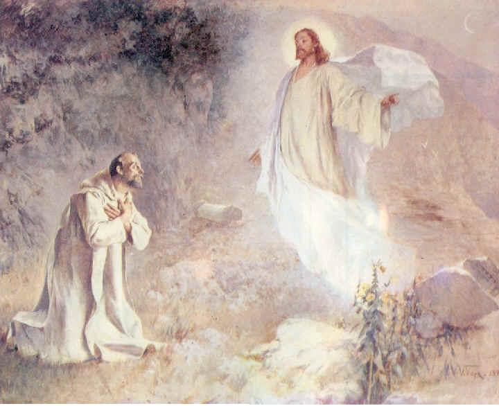 The Apparition